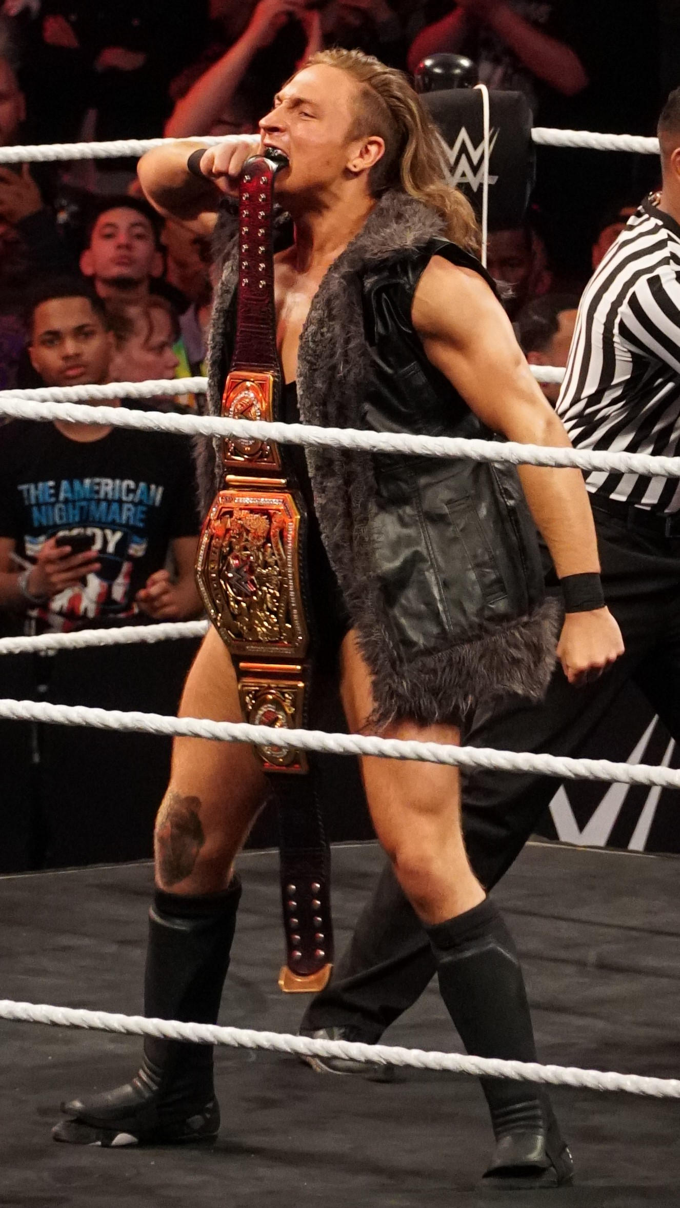 NXT United Kingdom Champion Pete Dunne in April 2018.